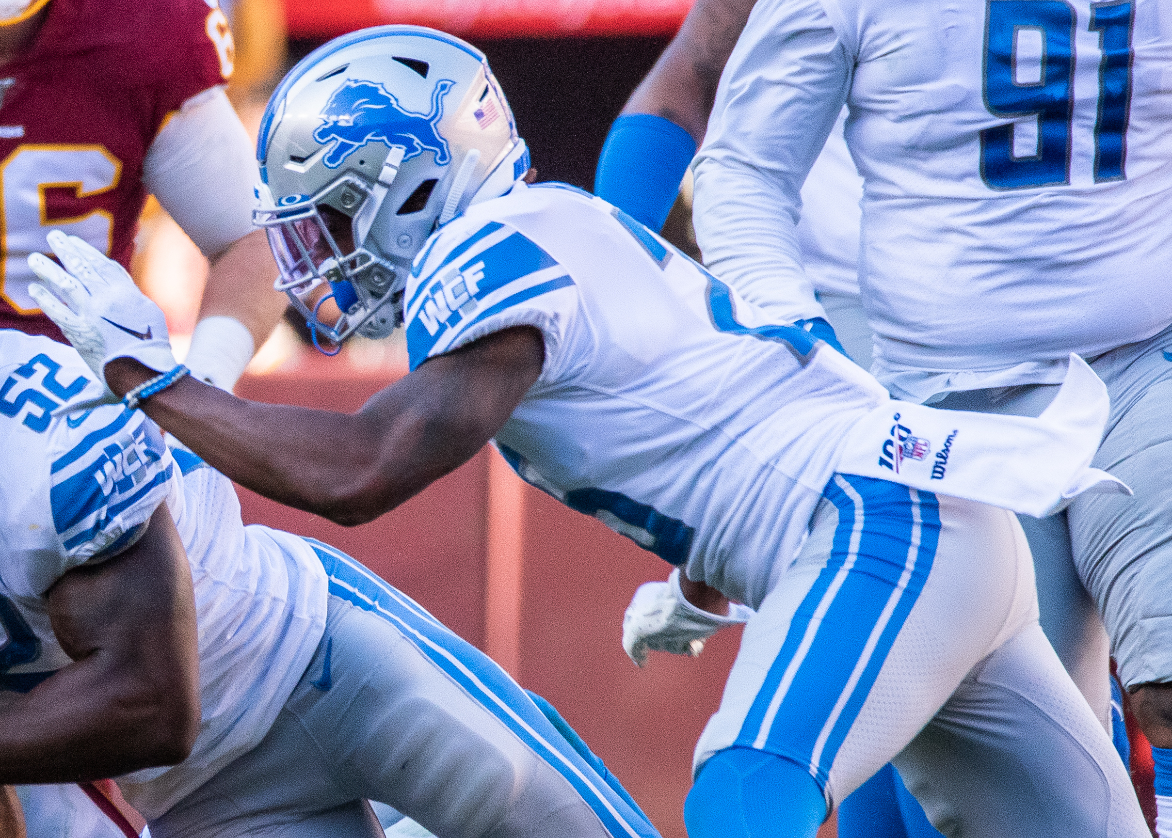 In 2019